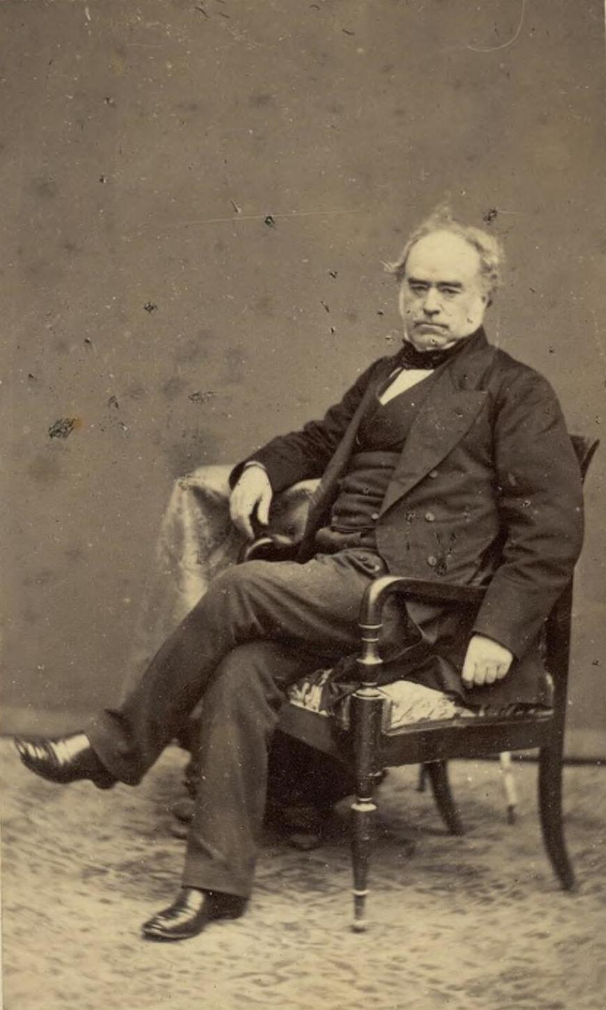 A portrait from the Welsh Portrait Collection at the National Library of Wales. Depicted person: Penry Williams – Welsh artist